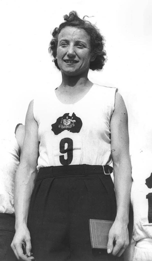 Decima Norman, 220 yard sprint, Empire Games, Sydney